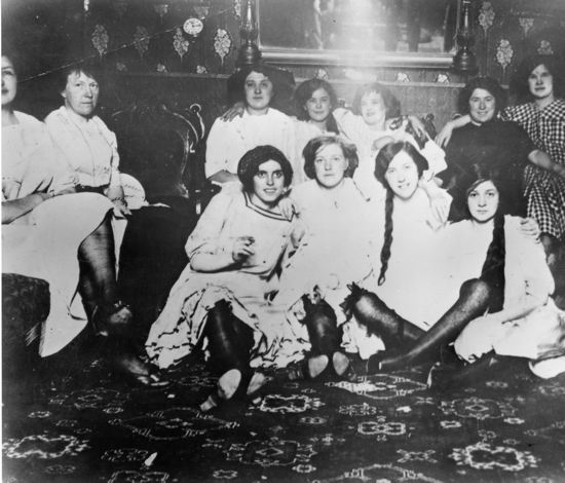 Women in an early San Francisco bordello on the Barbary Coast